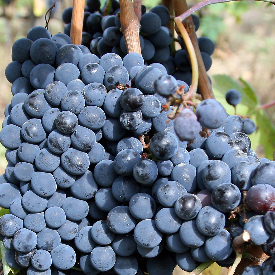 A close-up view of sangiovese grapes to be made into Chianti at the Colle Lungo vineyard in Castellina in Chianti, Tuscany, Italy